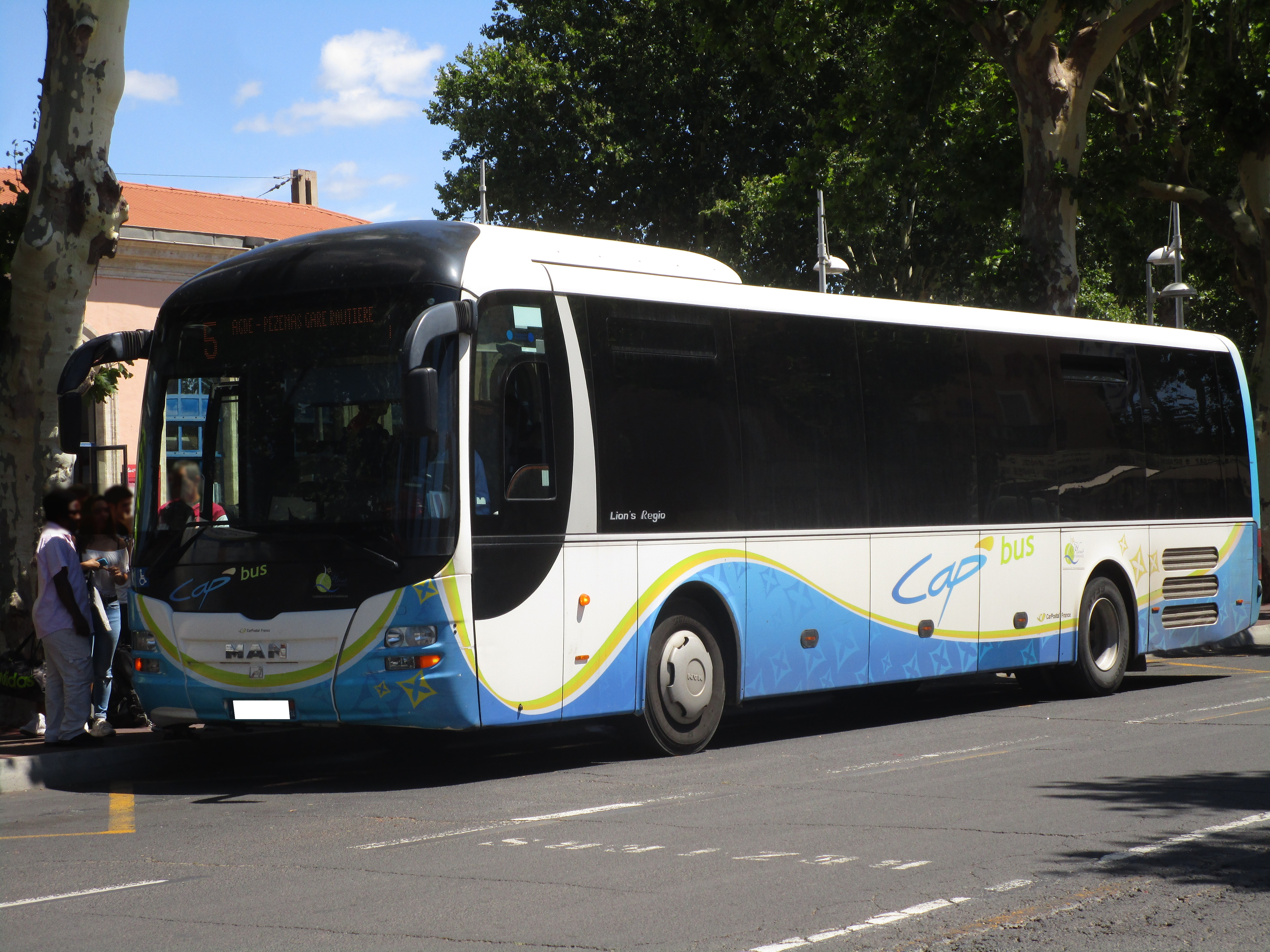 A MAN Lion’s Regio of Cap’Bus, on the line 5 (Gare, Agde↔Gare routière, Pézenas), at the call Gare — in the Agde, France — on June 26, 2017.